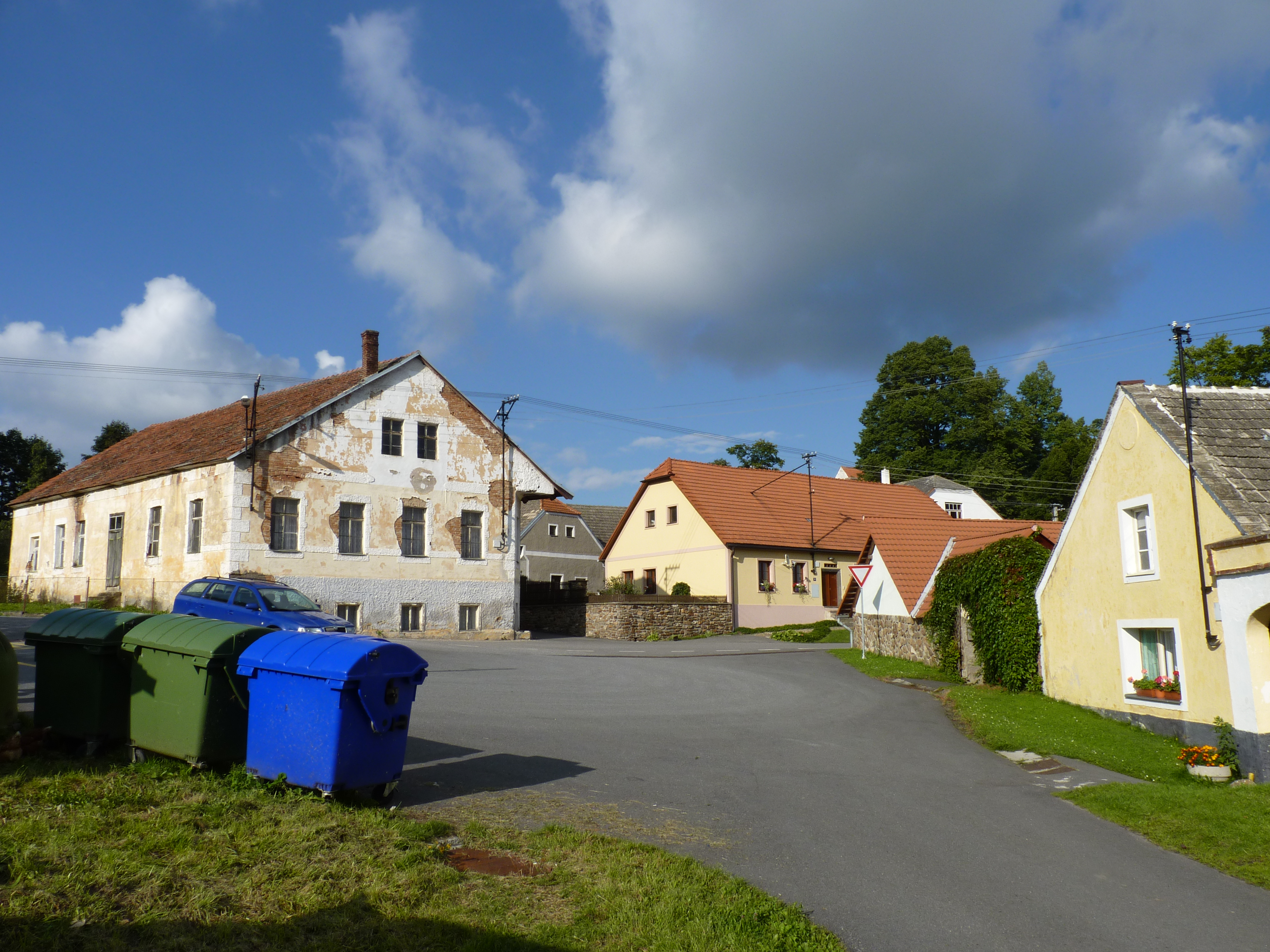 Dobrš, Strakonice District, South Bohemian Region, Czech Republic